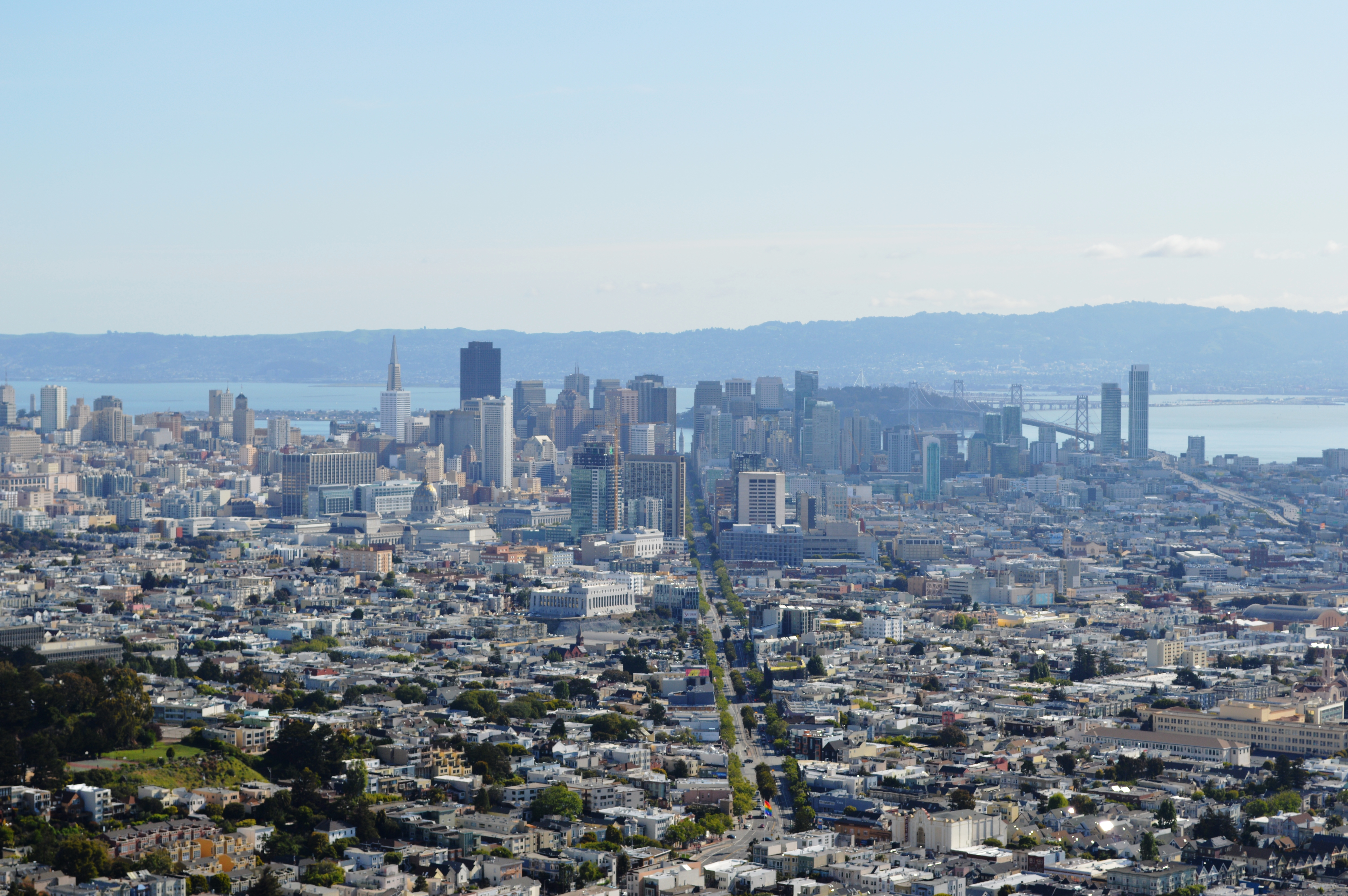 Overlooking the city from Twin Peaks